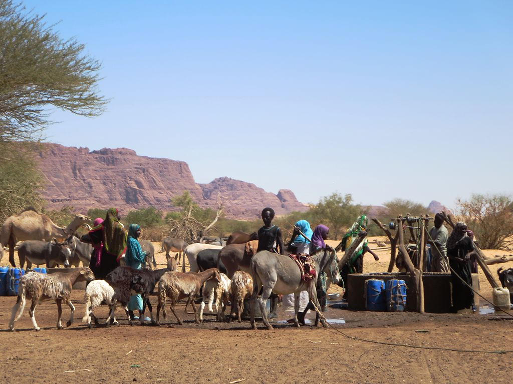 Toubou nomads congregate at the "Well of the Young Girls" in the Ennedi Mountains of northeastern Chad, Central Africa.